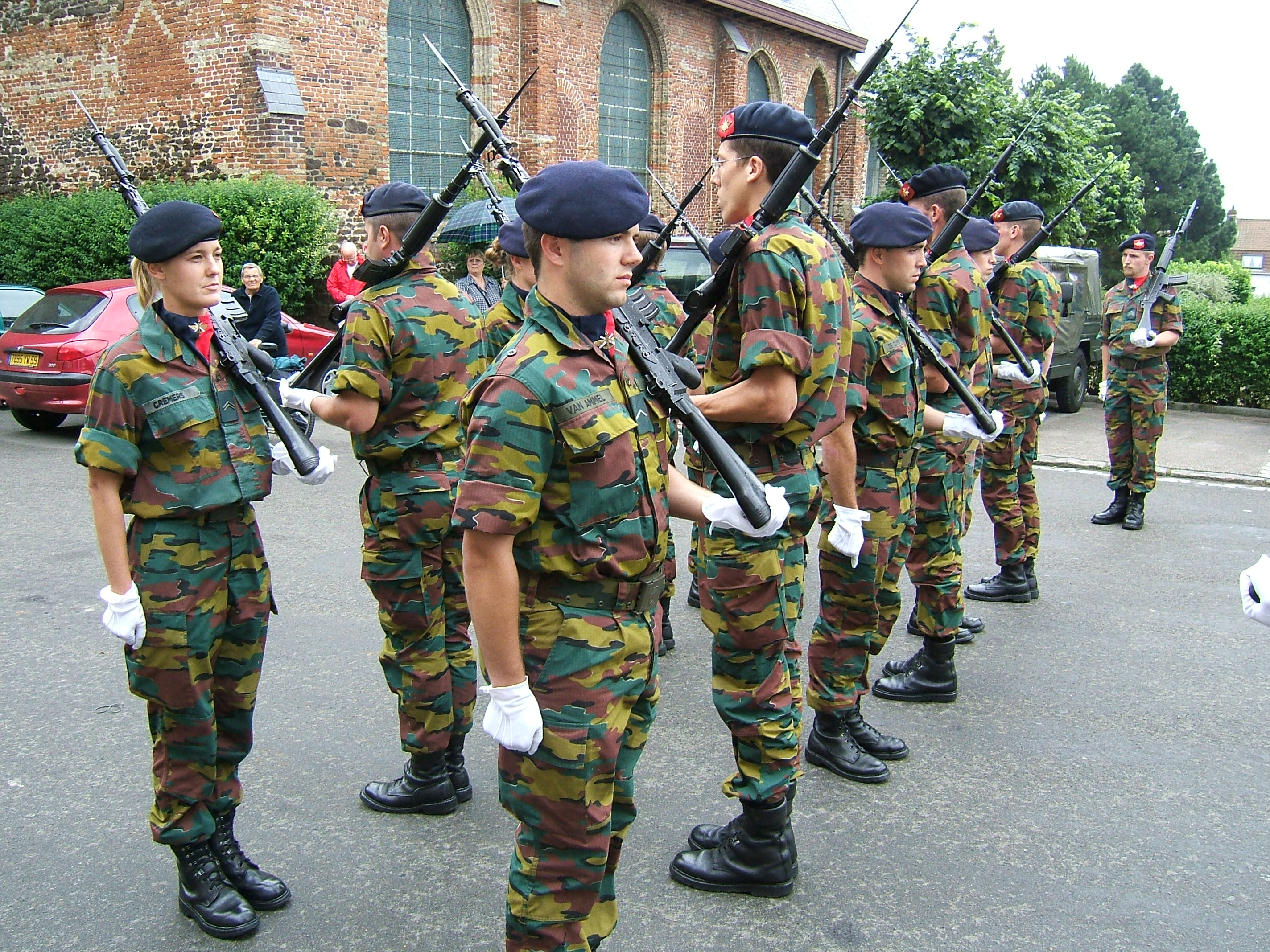 The drill platoon of the Belgian 14th Anti-Air Artillery regiment performing on the village square of Boeschepe, France